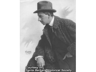 Public domain image of Henry Otto from the film studies archives where it is the purpose to use such images for critical commentary of film history. Published in the US before 1923.